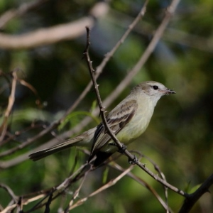 Mouse-colored Tyrannulet at Dourado - SP - Brazil